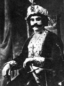 Husetmgulu Sarabski as Shah Abbas (Shah Abbas and Khurshud Banu opera)